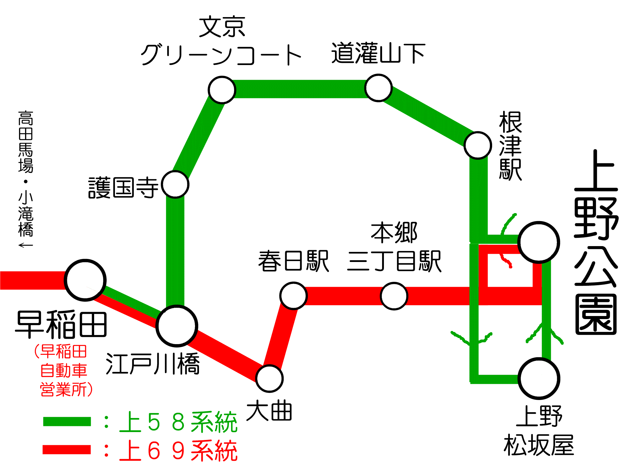 Overview of bus route between Waseda and Ueno, operated by Toei Bus.